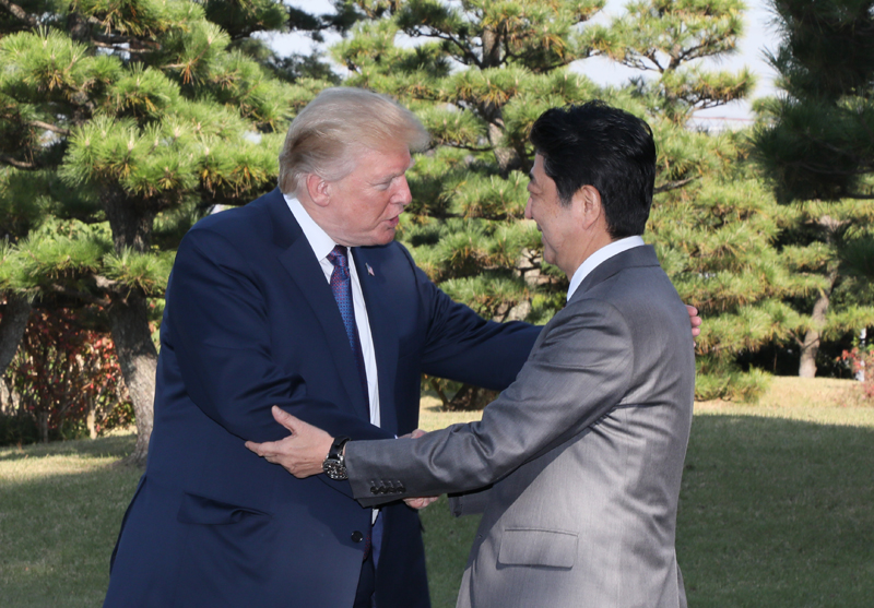 Japanese Prime Minister Shinzō Abe and POTUS Donald Trump meeting each other for the first time in Japan.